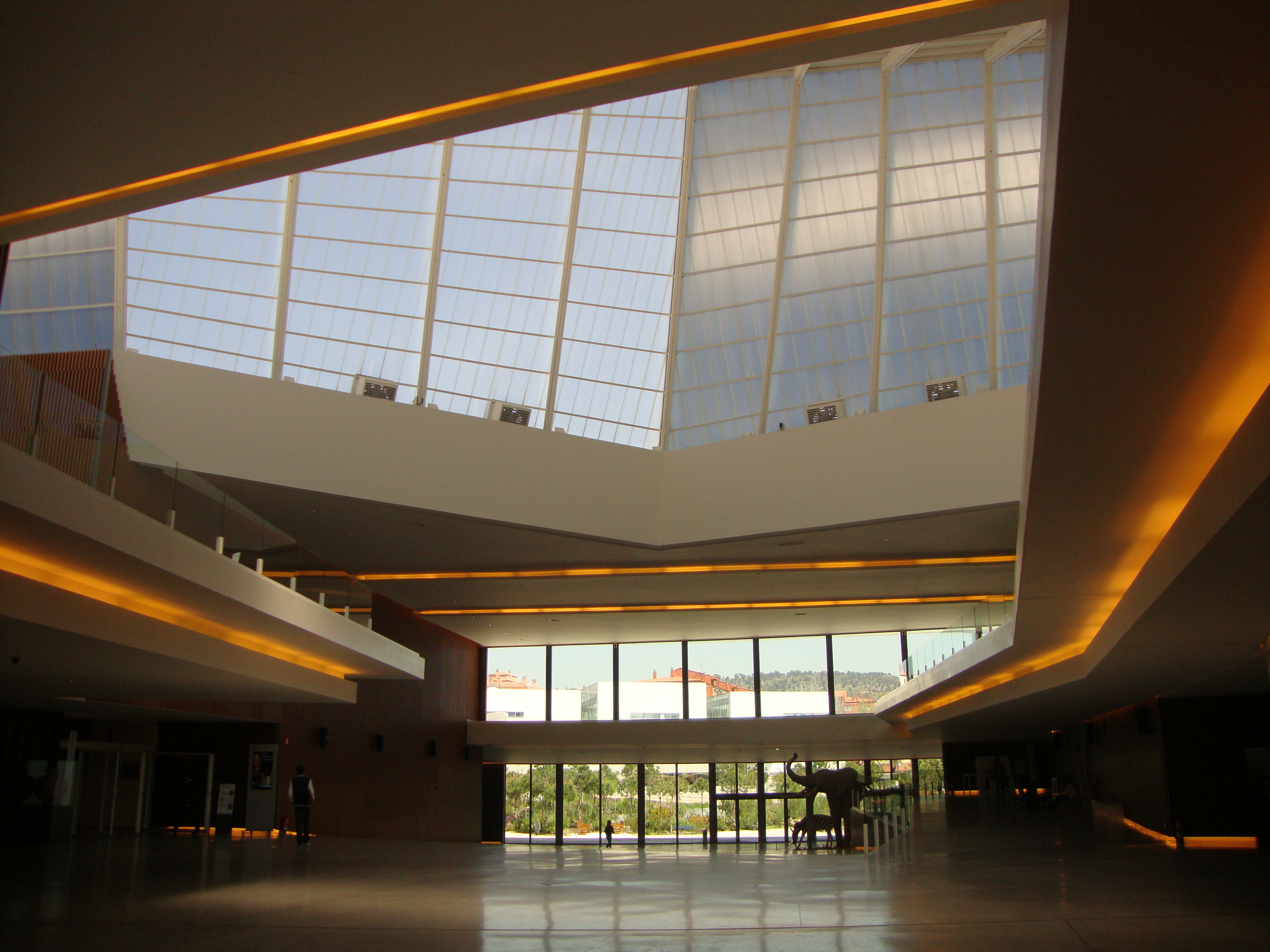 Science Park in Granada, Spain